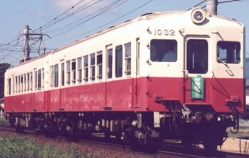 Takamatsu-Kotohira Electric Railroad No 1032 ruuning between Busshozan and Ichinomiya